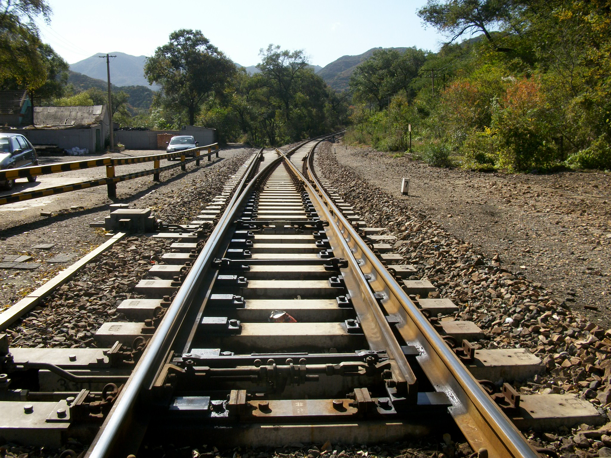 The zig-zag of Qinglongqiao Station on Jingbao Railway.